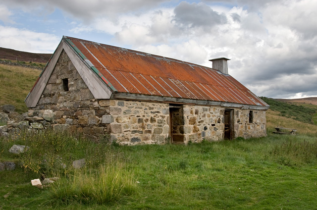 The cottage at Auchtavan. The cottage was recently the subject of a major restoration project. The cottage is of particular historical significance because it is considered to provide nationally important surviving evidence of the early traditional Scottish small house and it has of a number of rare architectural features. These include a cruckframed roof structure, with heather and thatch roofing under corrugated iron; rubble dry stone walls with some lime mortar, and a largely intact hanging lum (chimney) of vertical timber boarding over an open hearth. The cottage would originally have been divided into two; the left side was for the animals and the right side with the hanging lum was for the family. See also 1466978 1466981 1466987